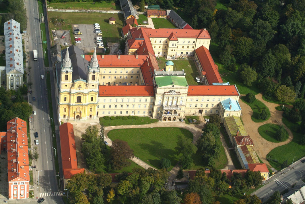 Aerial photograph of Cistercian Church and Abbey of Zirc, Hungary